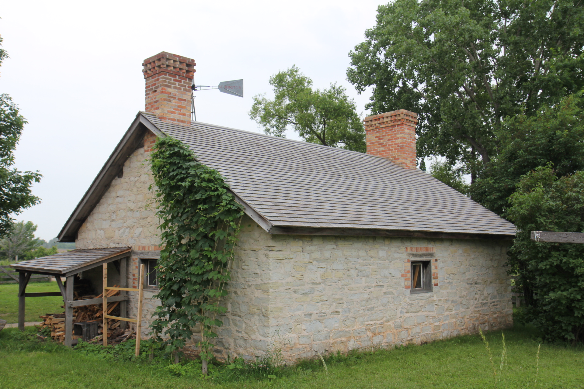 The summer kitchen in the Belgian Farm section at the Heritage Hill State Historical Park.